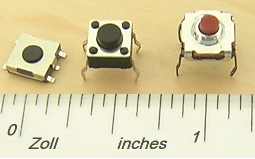 Three tactile switches. Ruler scale is in inches. The left one is surface mount. Also, note that the leads of the switches are in varying states of tarnish; far left is least tarnished, while the one on the right is quite tarnished.